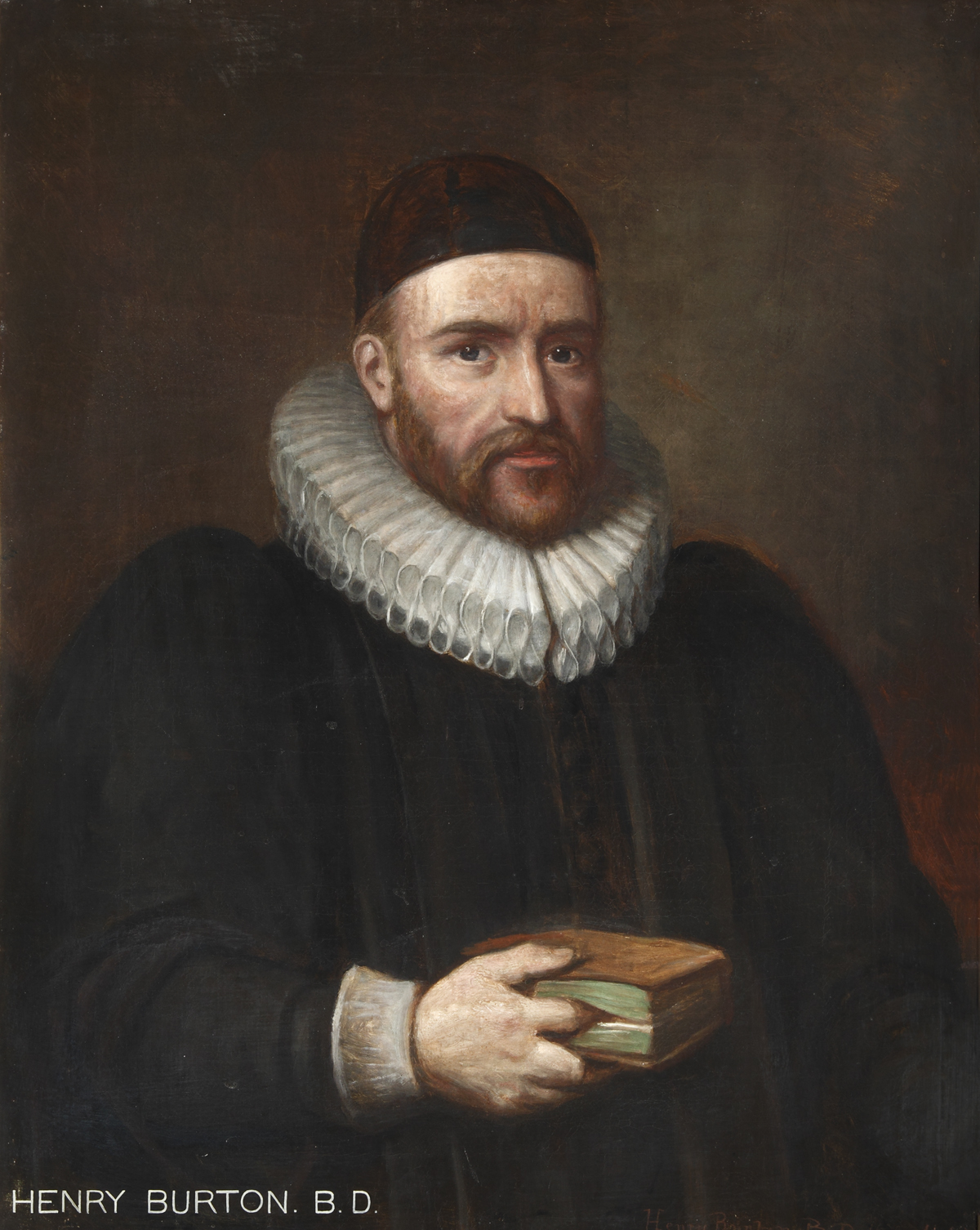 Depicted person: Henry Burton (theologian)